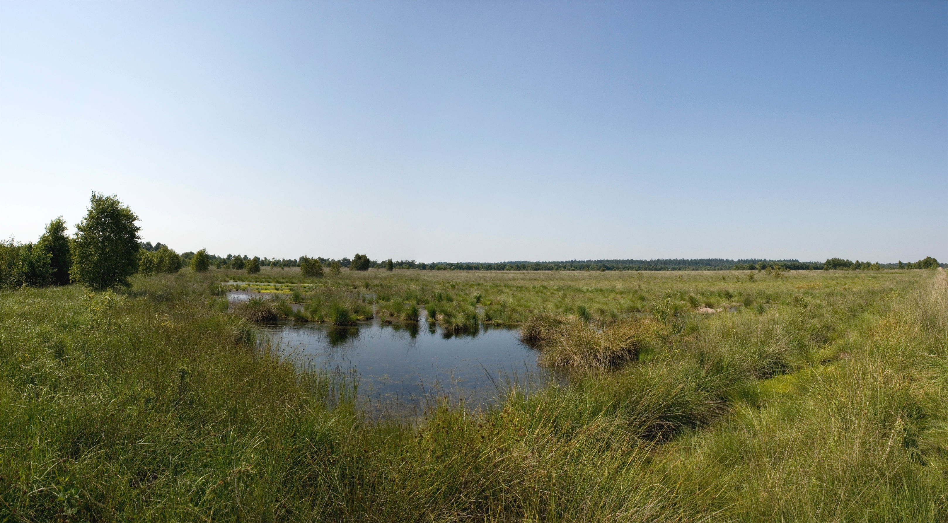 View in part of the Ahlenmoor, a hill moor in northern Lower Saxony, Germany. Canon EOS 400D, Canon EF-S 18-55mm 1:3.5-5.6 1/640 sec, f/8,0, 100 mm, ISO 200 stiched from four images